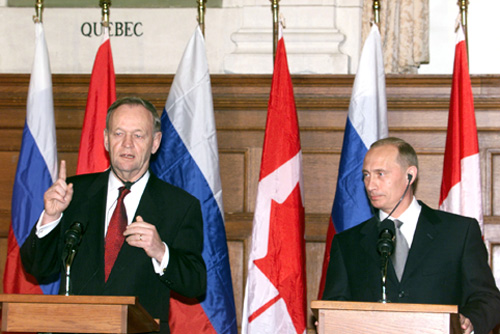 OTTAWA. President Vladimir Putin and Canadian Prime Minister Jean Chretien address a joint news conference.